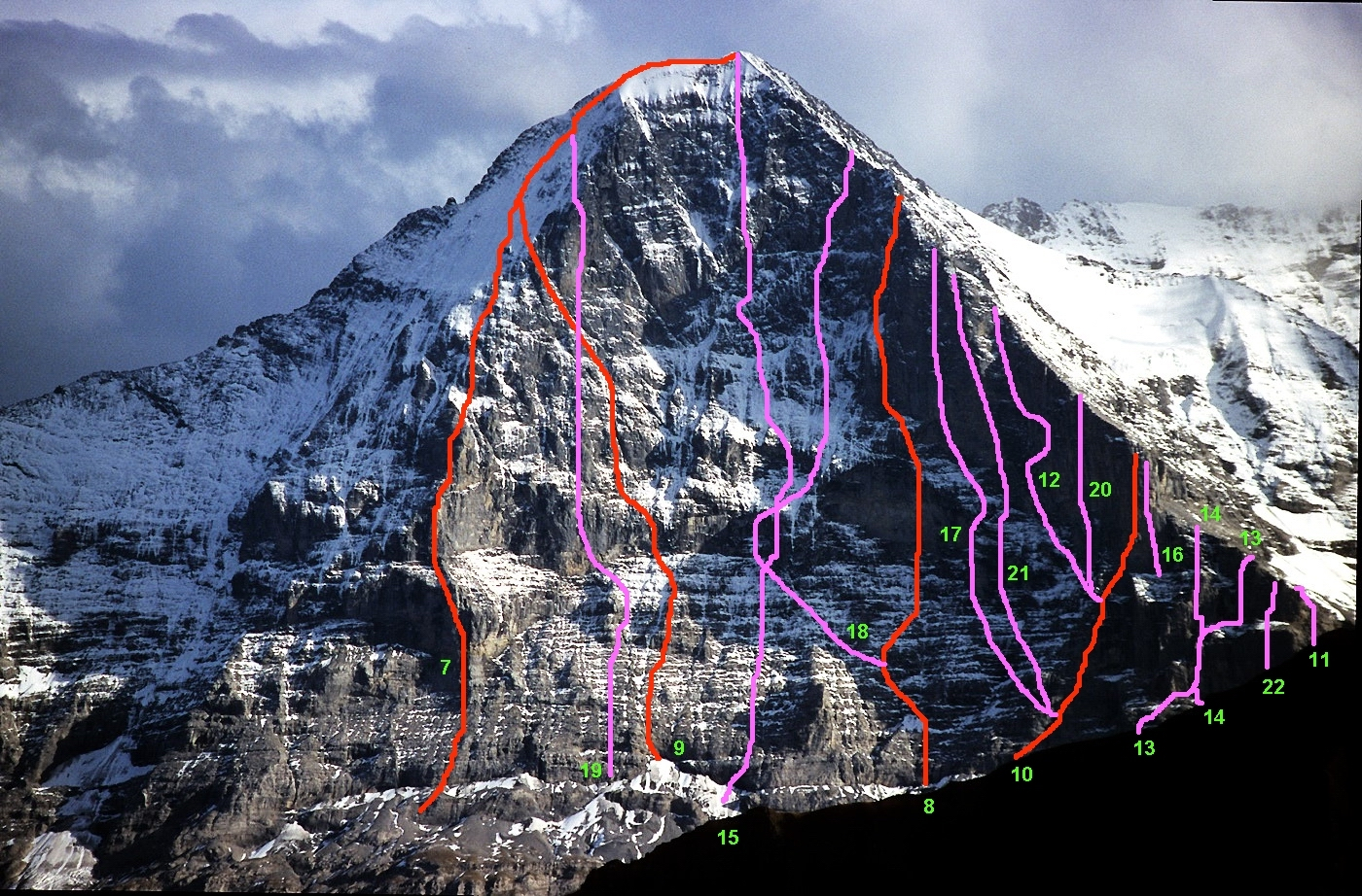 Routes through the Eiger Northface from 1970 to 1988